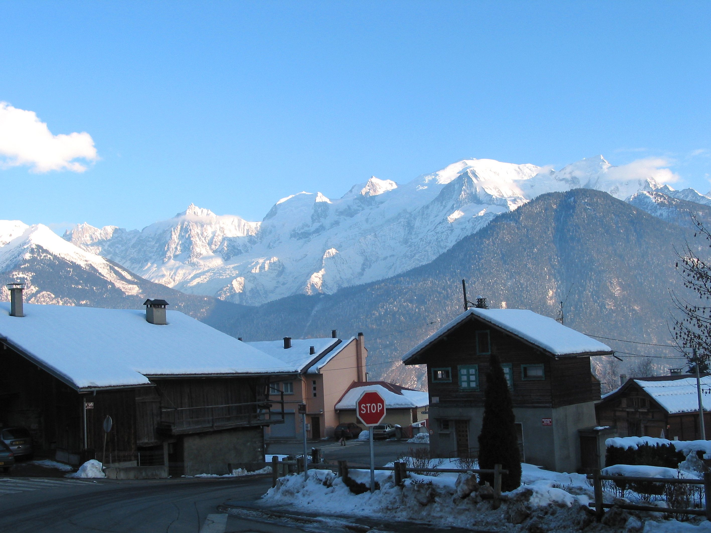 Passy, Haute Savoie (France), the Mont Blanc seen from the village.